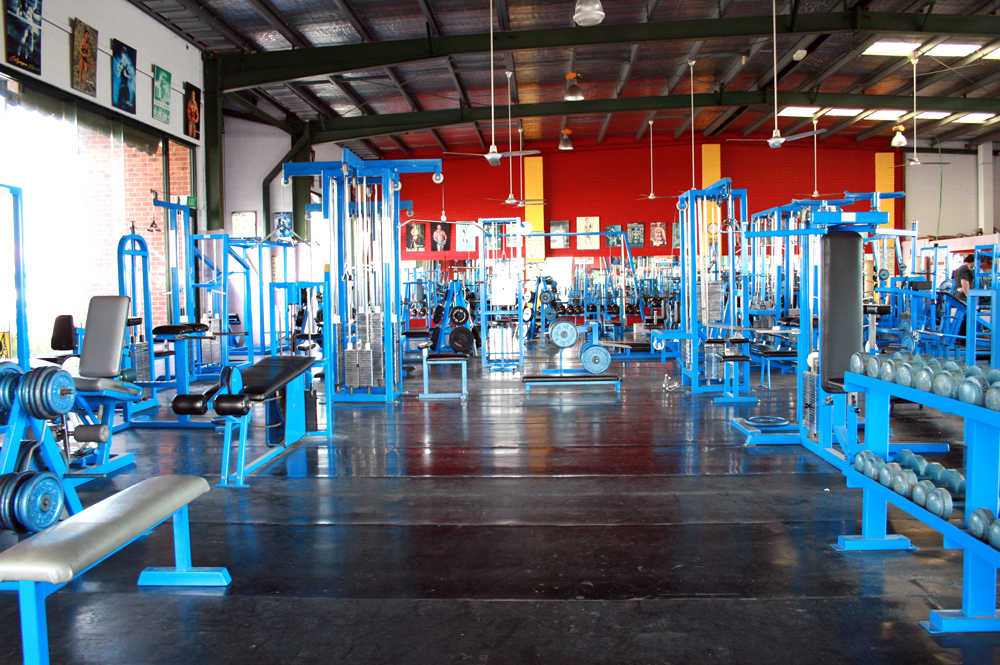 Health club main workout area